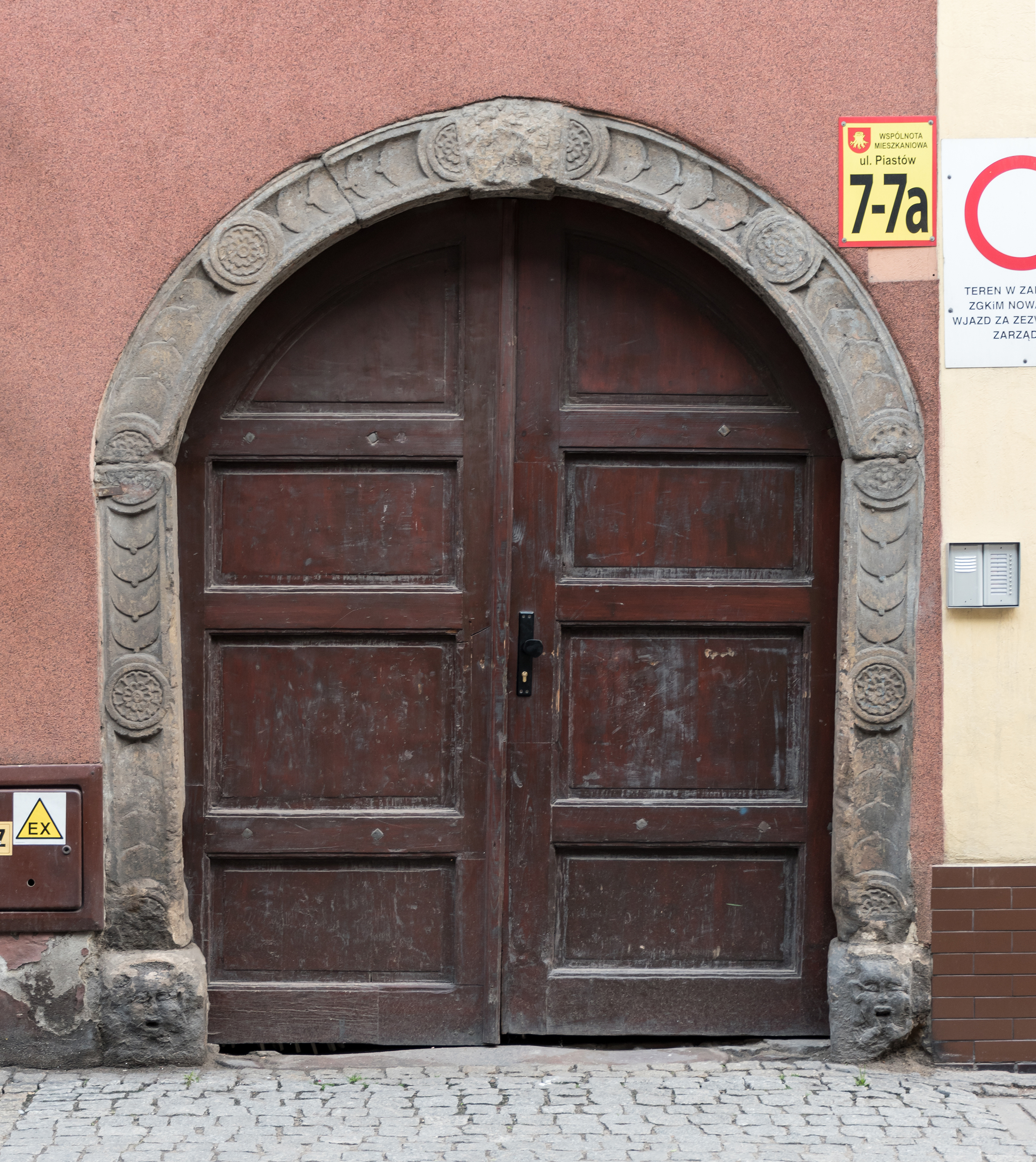 7 Piastów Street in Nowa Ruda